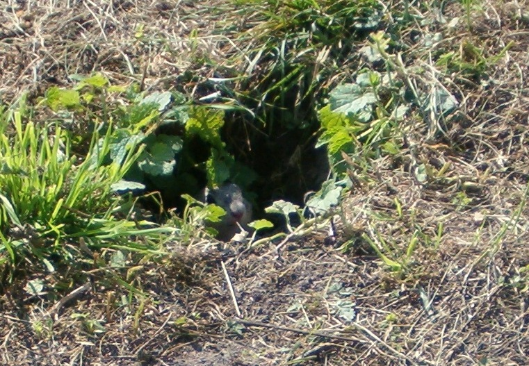 Speckled ground squirrel, habitant of Spišský Hrad (Slovakia)